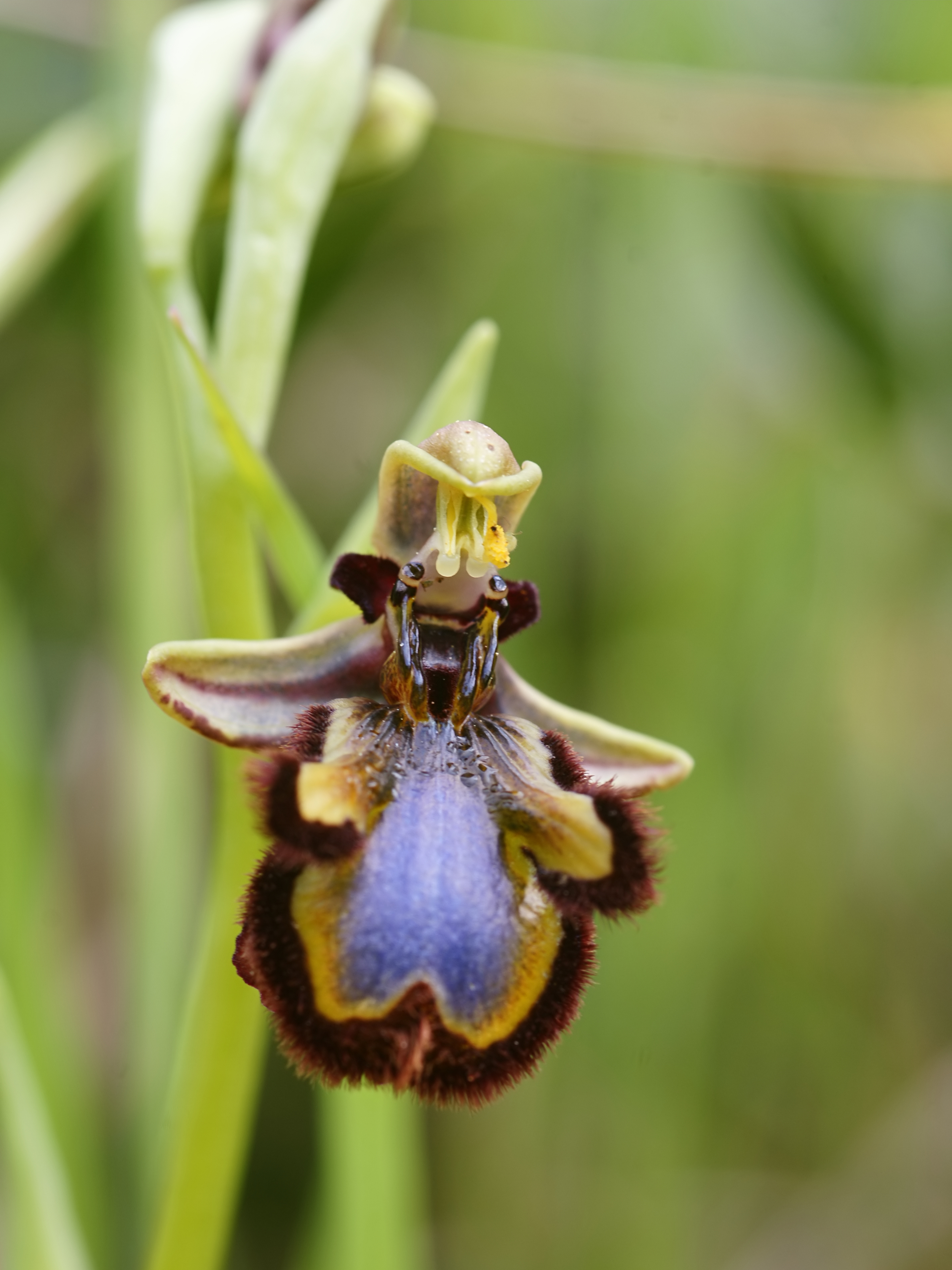 Mirror Orchid near Son Serra, Mallorca, Spain (location within 3 km).